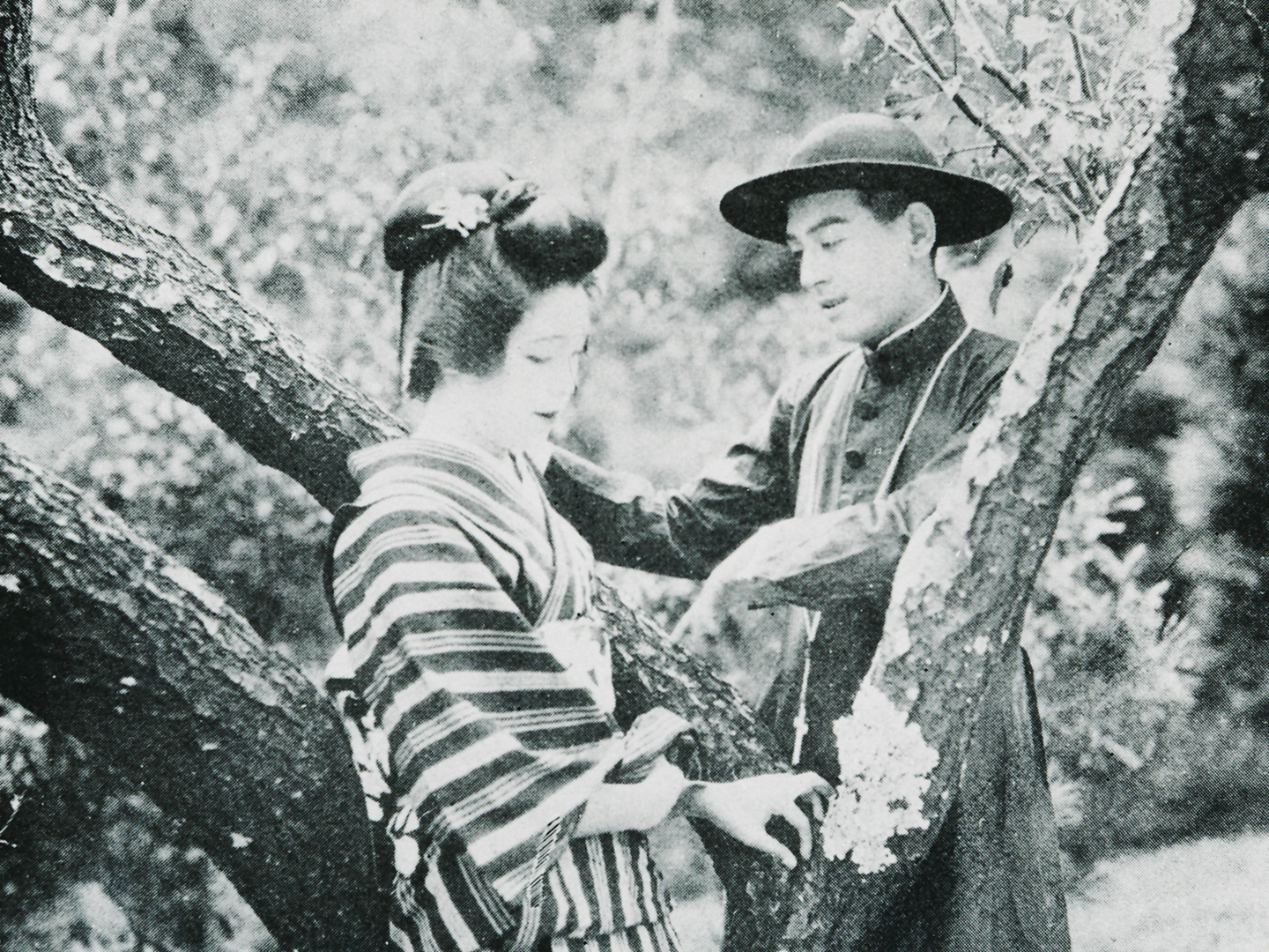 Tsuruko Segawa and Tsuzuya Moroguchi in Shinsei (新生) directed by Henry Kotani - 1920